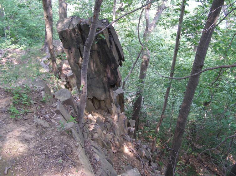 A photograph taken on a hiking trail on the Palisades Sill, near the Lamont-Doherty Earth Observatory of Columbia University. I took this picture on June 19, 2006.